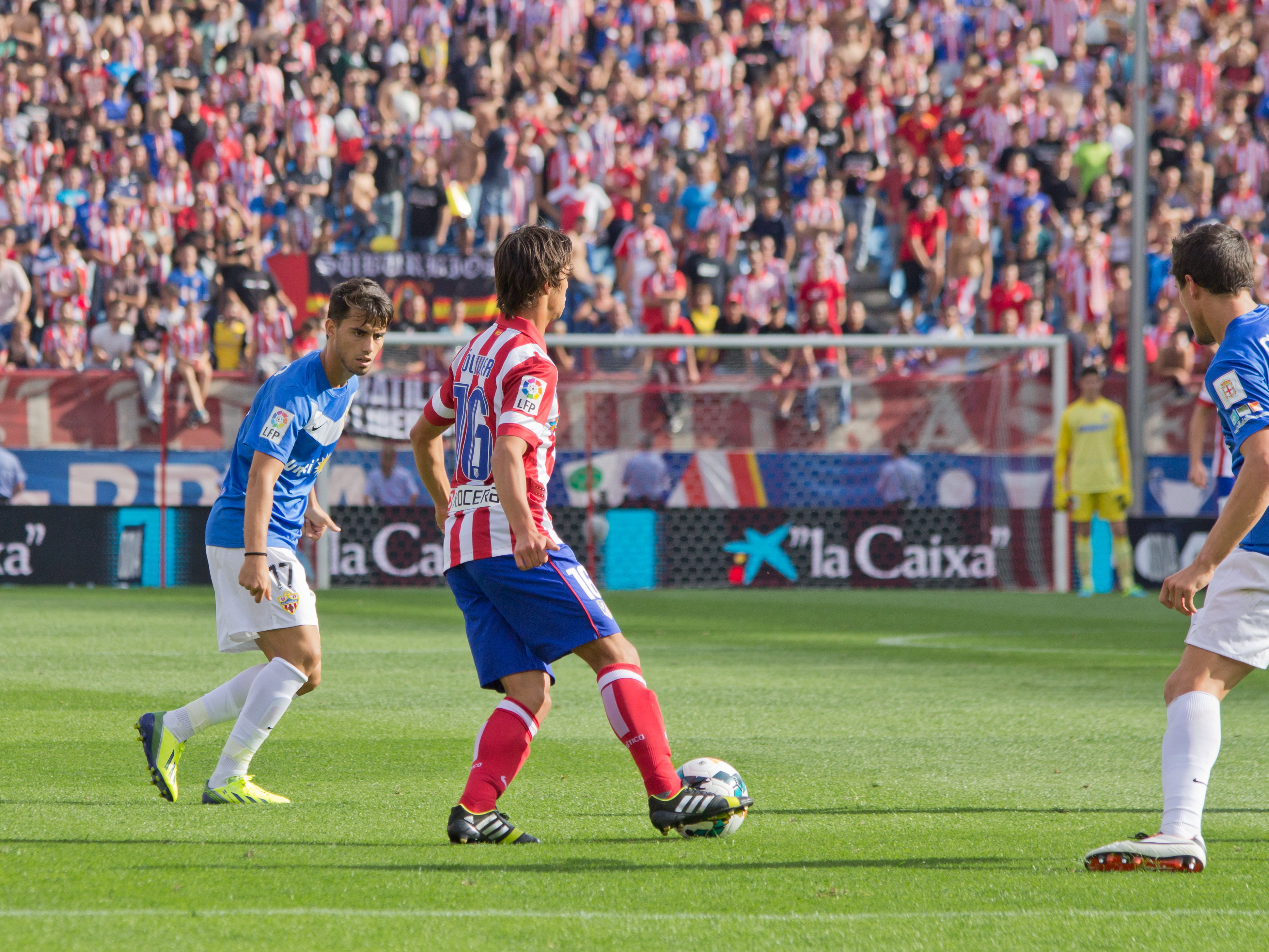 Atlético de Madrid vs UD Almería, 2013-2014 season.